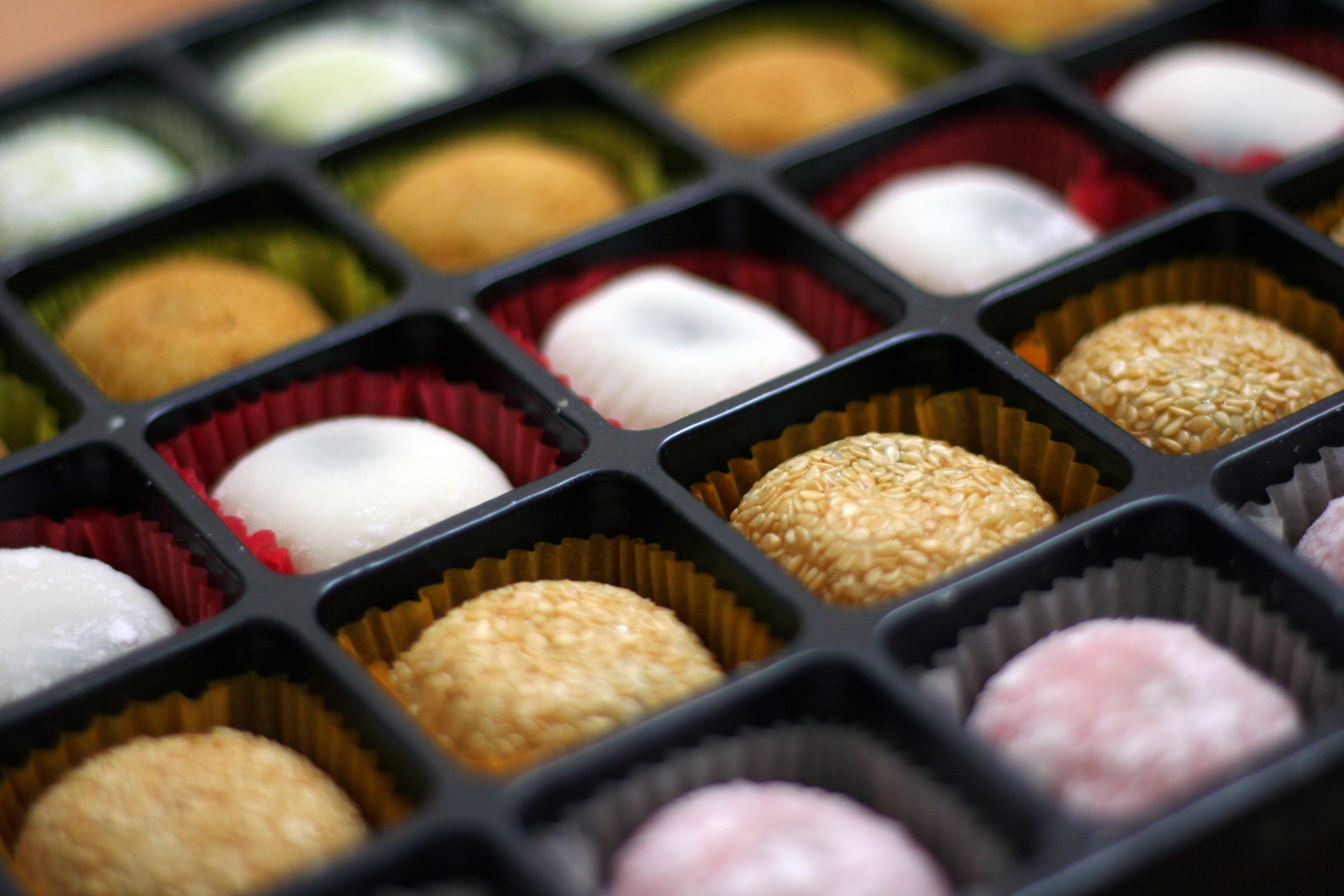 Small Japanese rice cakes in a box